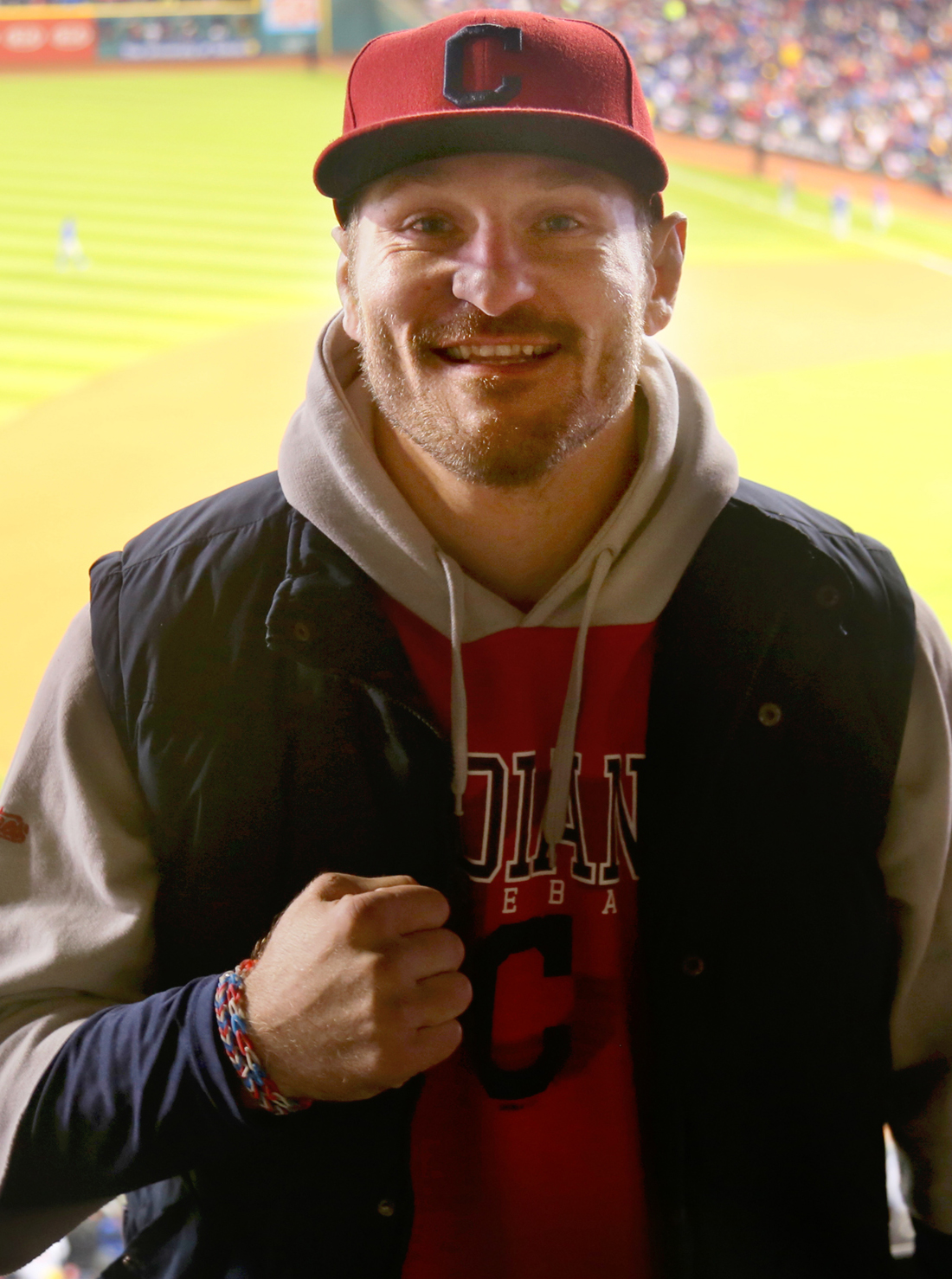 UFC heavyweight champ Stipe Miocic in the house for World Series Game 2.